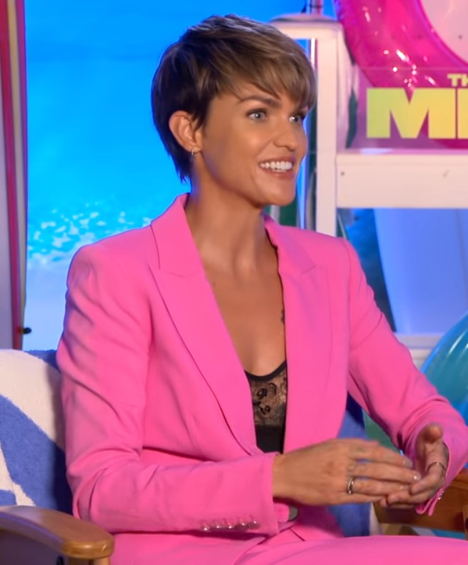 Stars of new MEGA-SHARK movie, The Meg, Jason Statham, Ruby Rose, Li Bingbing and Rainn Wilson reveal the moments that made them LOL behind the scenes, the hilarious bits you WON’T see in cinemas, Ruby Rose’s superhero plans and Jason Statham gives us the details on his upcoming Fast & Furious spinoff movie with The Rock!